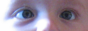 A child with a squint as a result of retinoblastoma